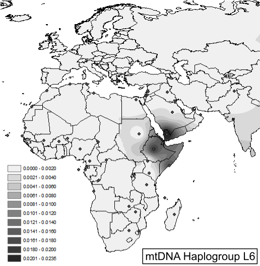 Frequency maps based on HVS-I data for mtDNA haplogroups L6.